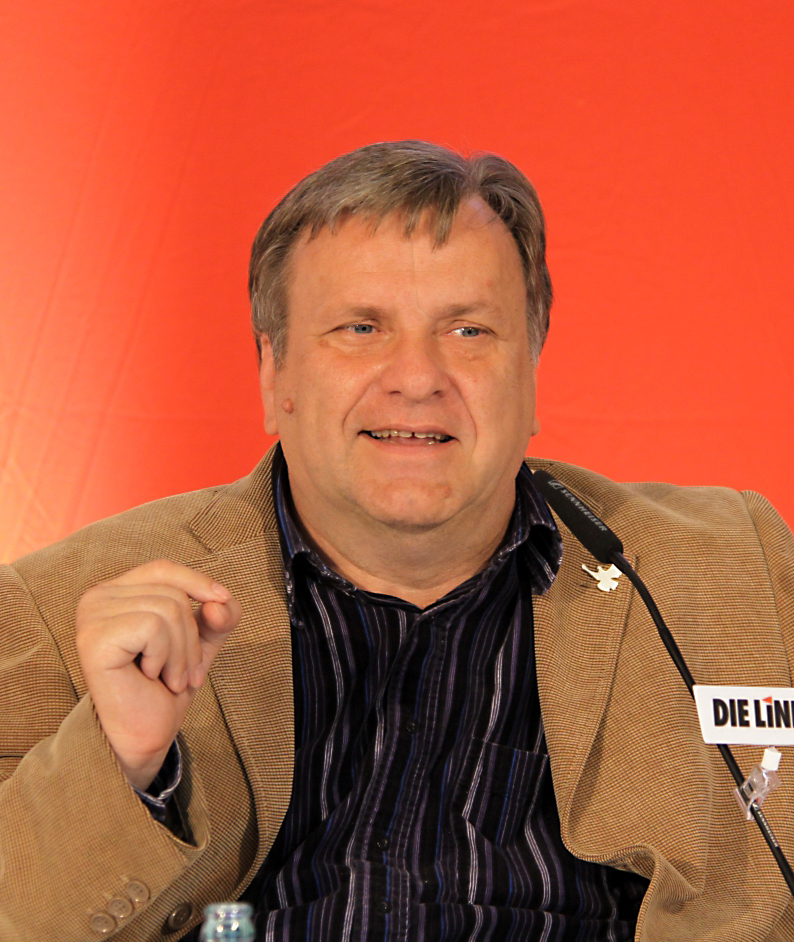 Germany politician of Saxony, Die Linke